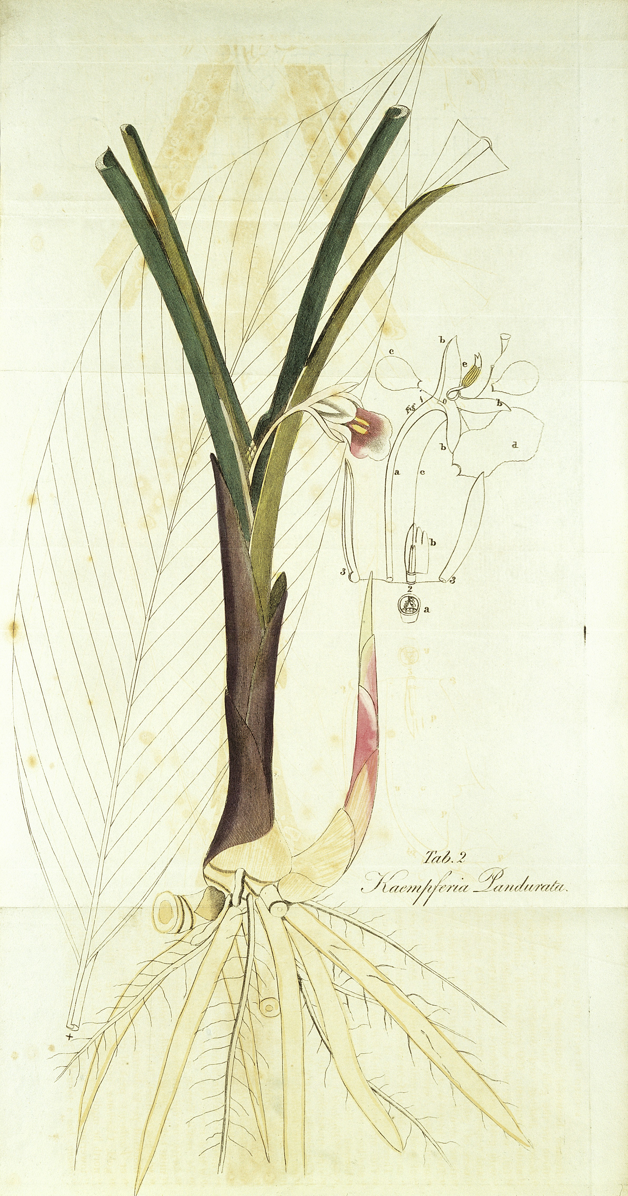 Indian Medicinal Plants. Kaempferia Pandurata. Rare Books Keywords: Medicinal Plant; kaempferia pandurata; India; Plants, Medicinal